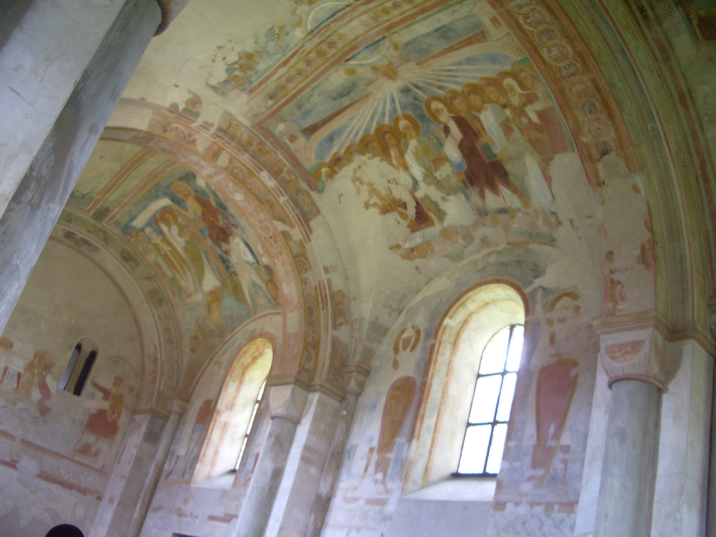 Idensen, Deckenmalerei